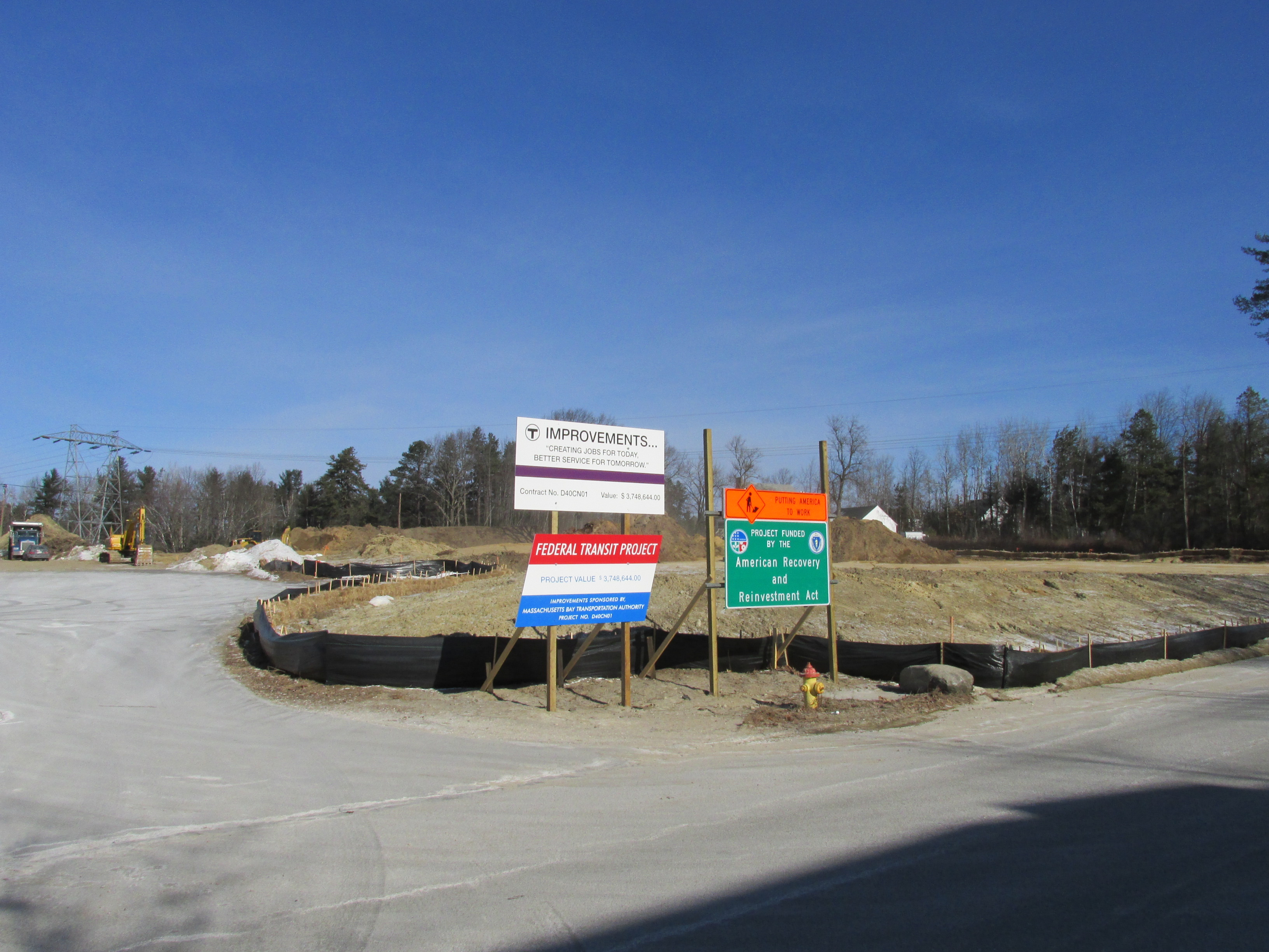 MBTA construction site, Fitchburg Massachusetts - view from Authority Drive